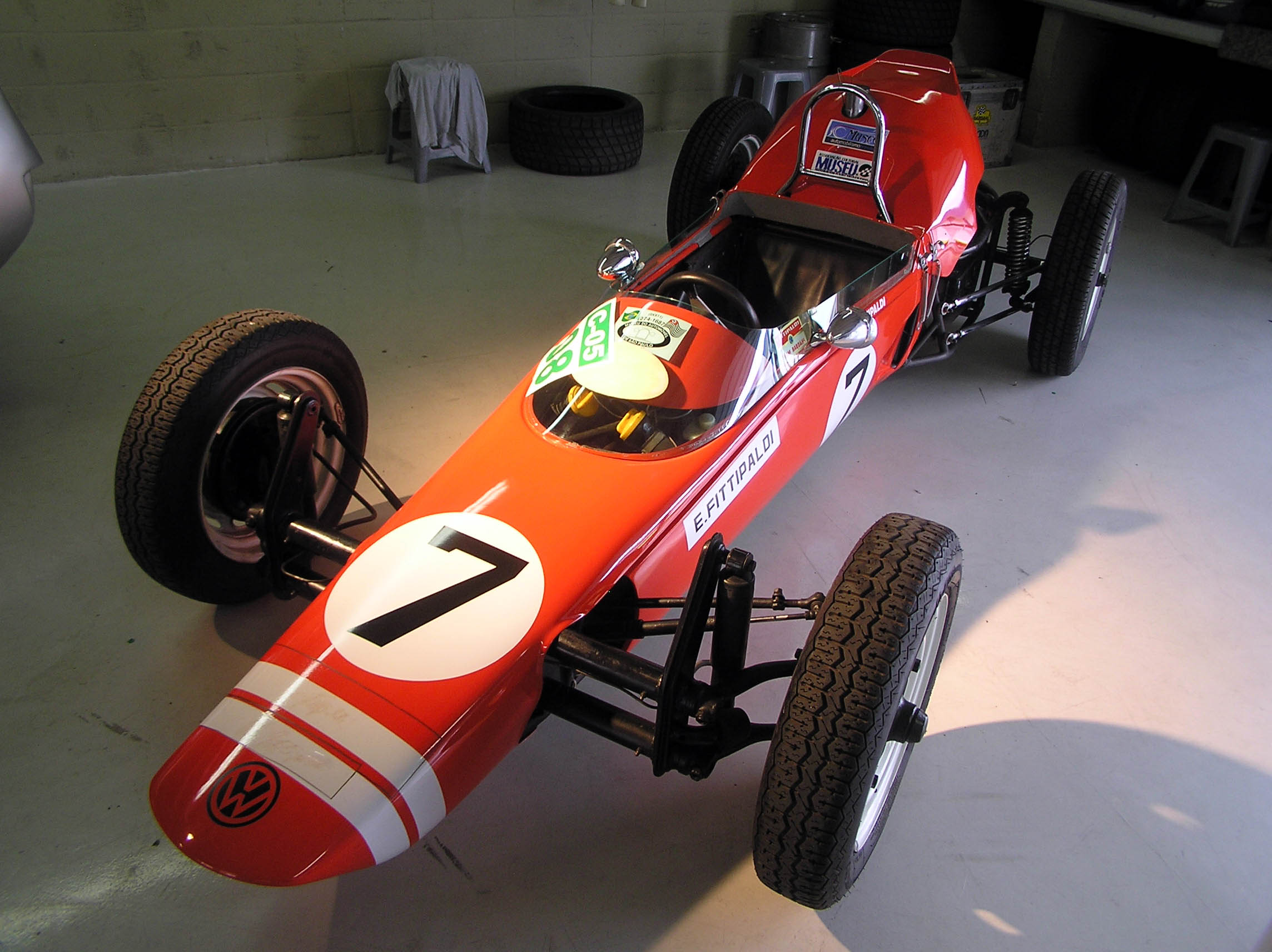 Wilson & Emerson Fittipaldi brothers' Fórmula Vee (Fitti Vê, version 1966) Owner: Museu do Automobilismo Brasileiro